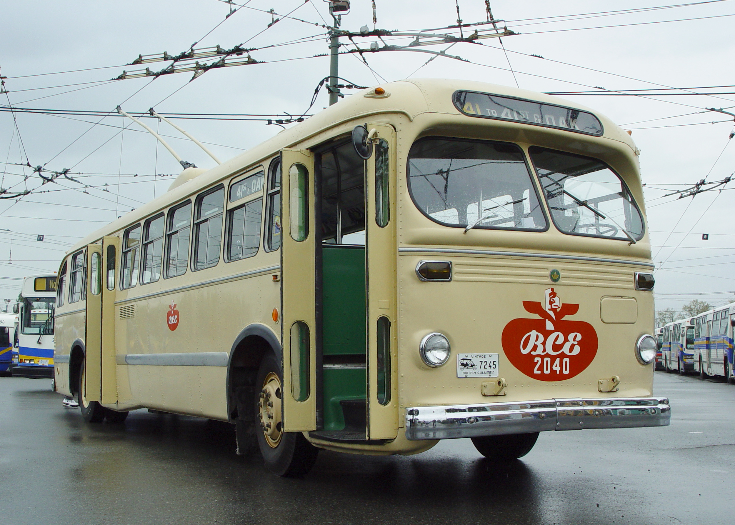 Ex-BCER 1947-built CCF-Brill T44 trolleybus No. 2040, preserved in Vancouver by the Transit Museum Society, seen at the Oakridge Transit Centre (O.T.C. garage/depot) of TransLink.